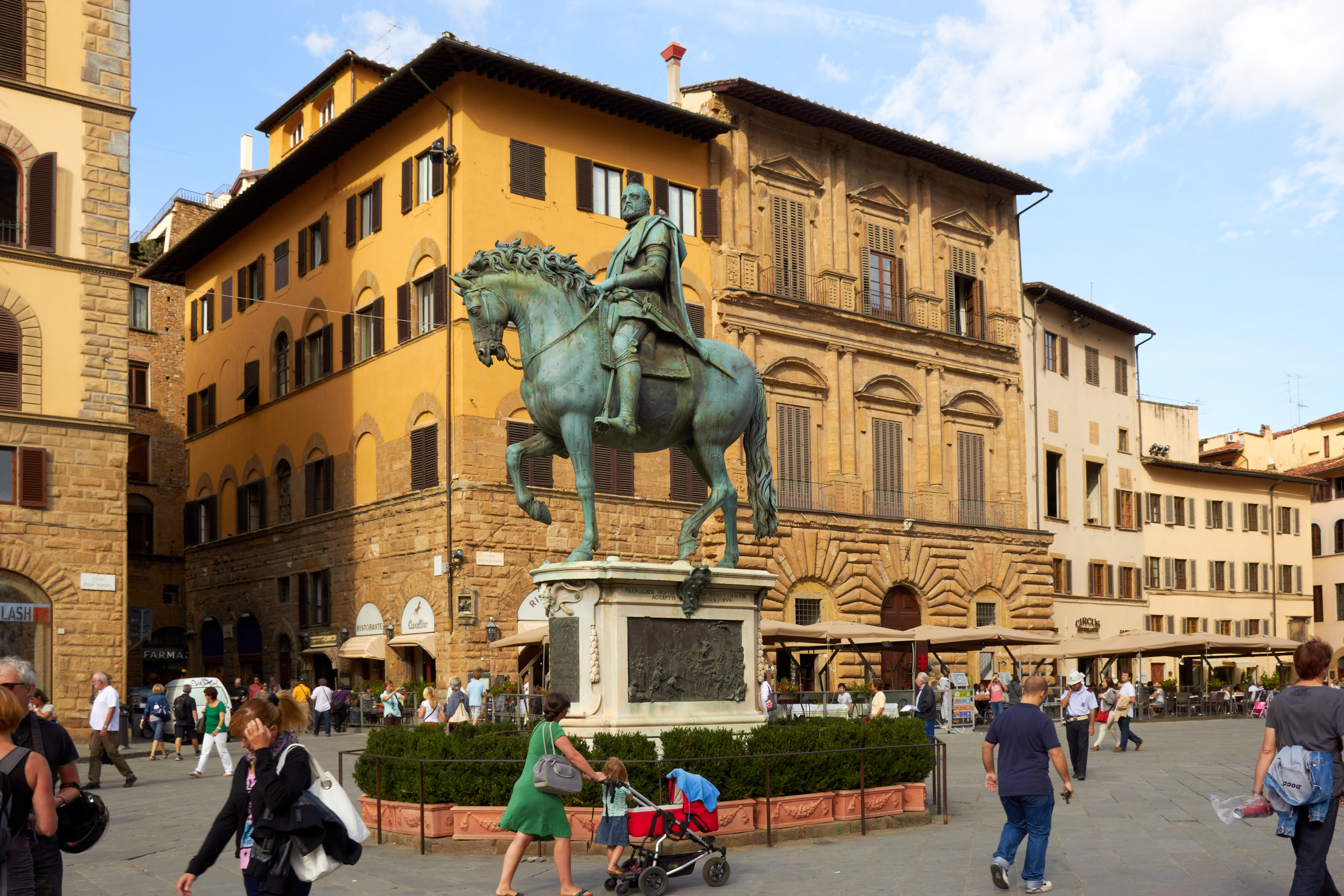 The equestrian monument to Cosimo I de' Medici on the Piazza della Signoria in Florence, was sculpted by Giambologna.